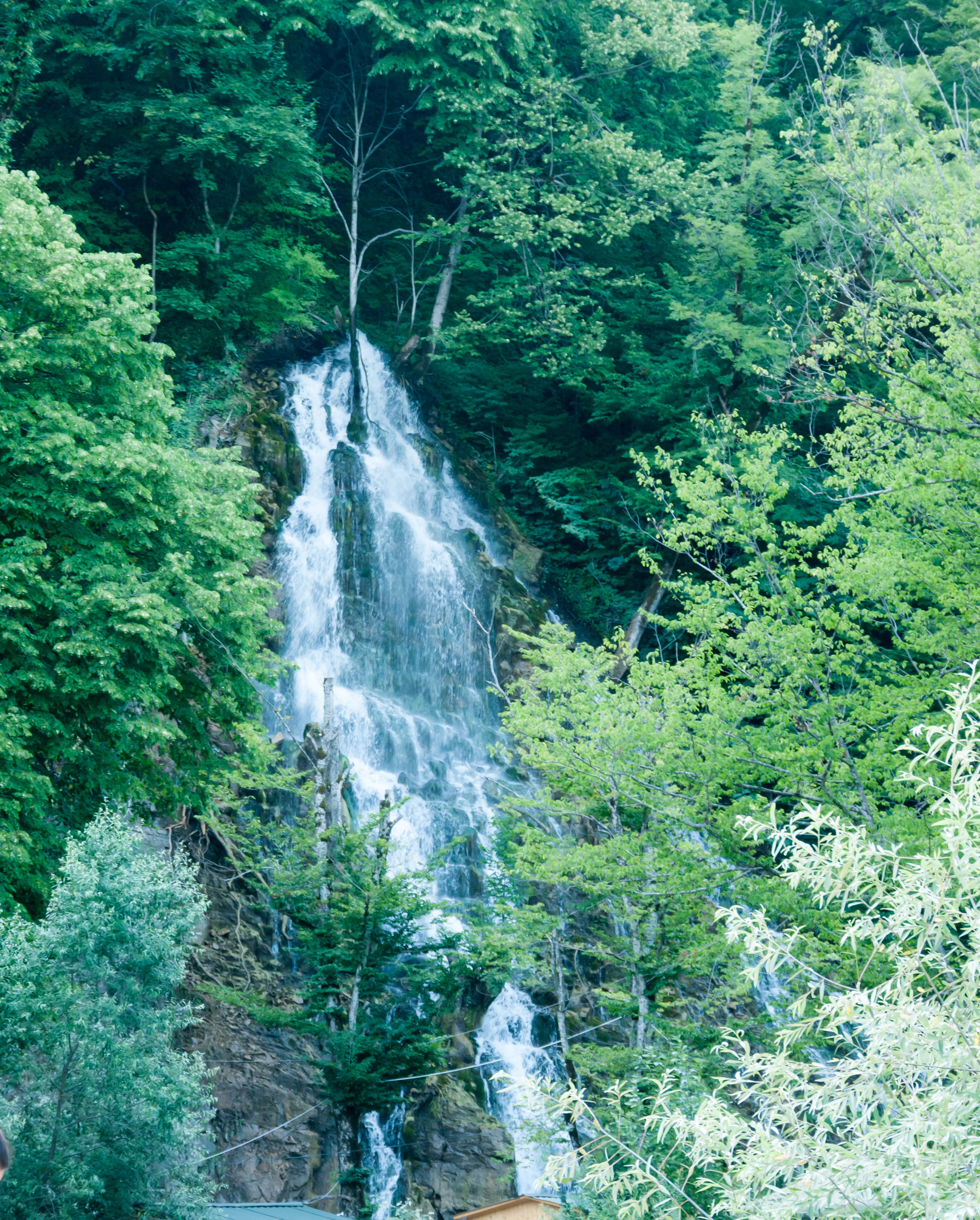 Khalkhal